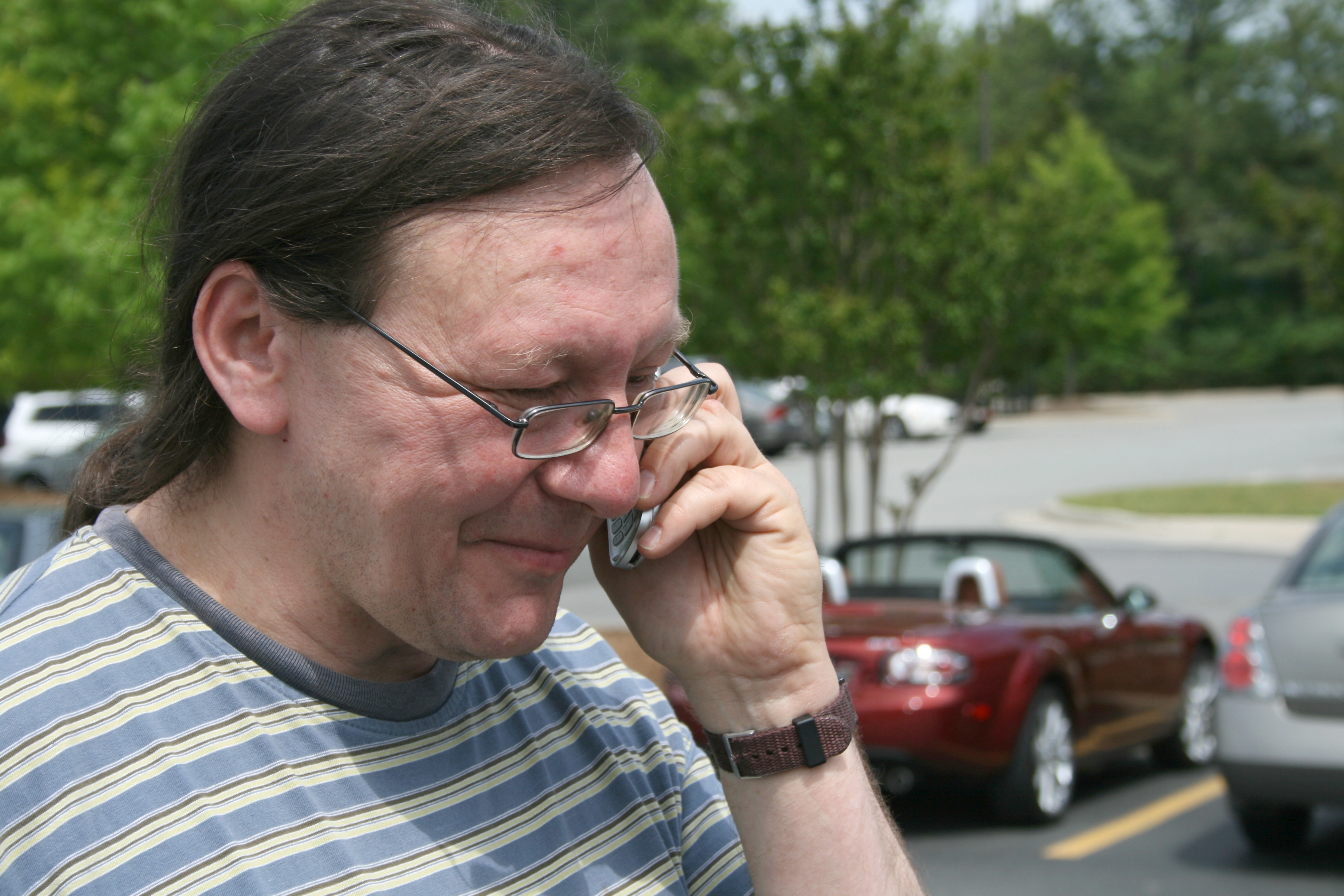 Igor Sagdejev speaking on a mobile phone in a parking lot in Chapel Hill, North Carolina.